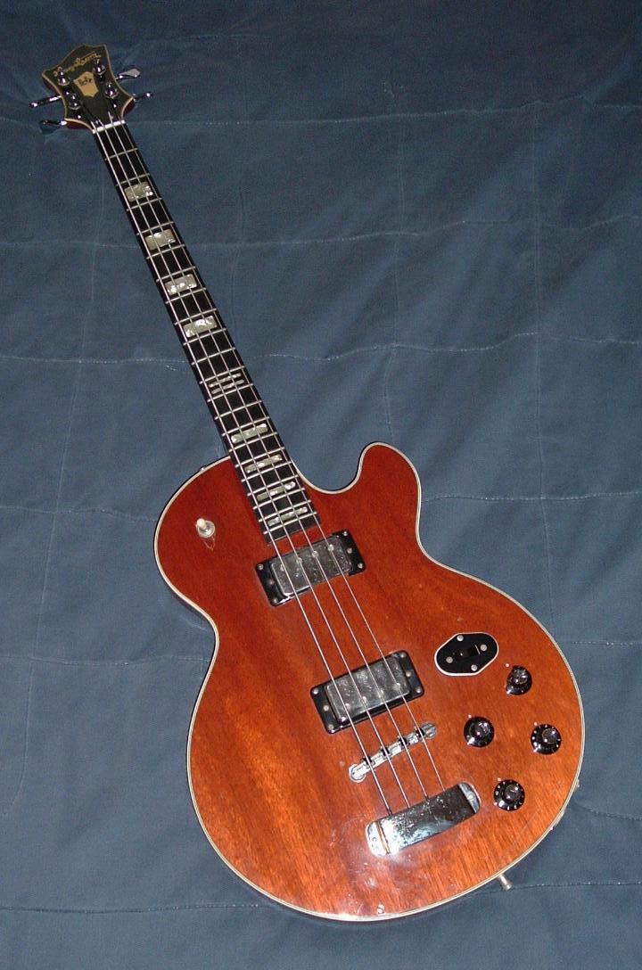 Hagstrom Patch 2000 Bass